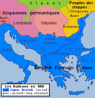 Historic map of Balkan peninsula, year 550